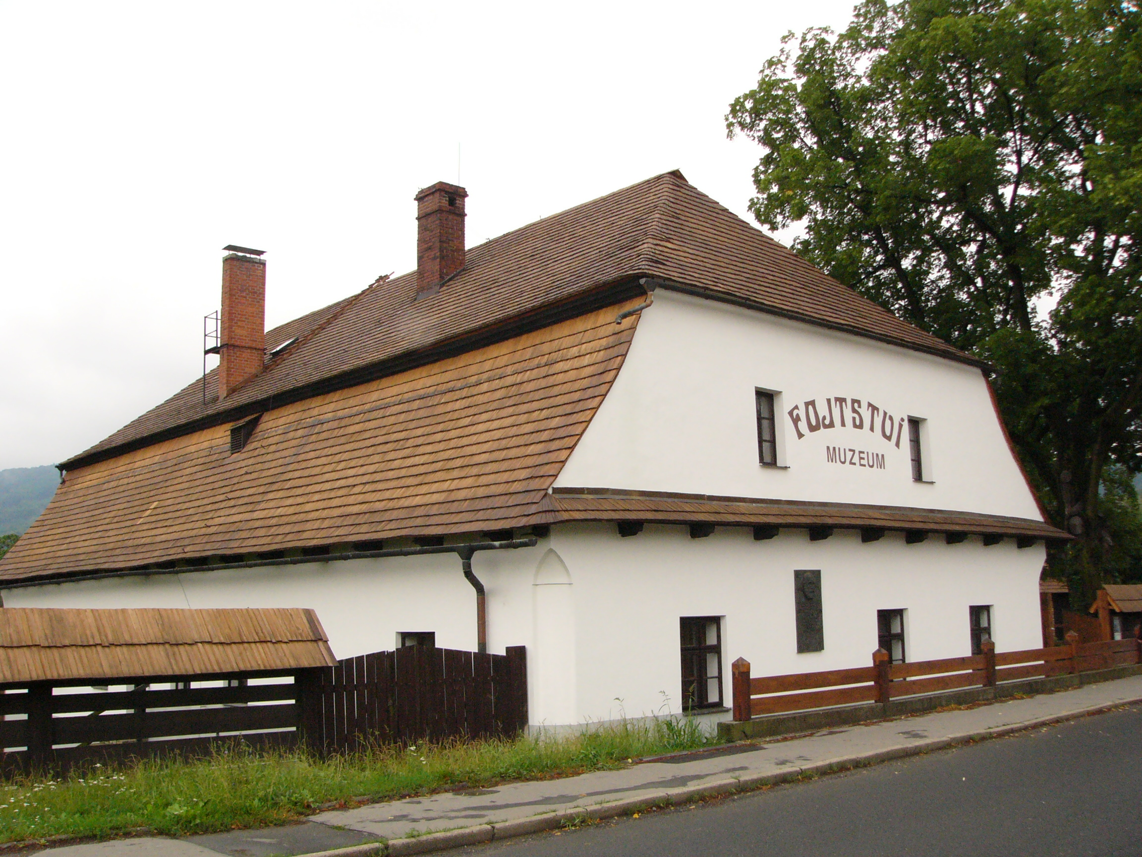 Building of Muzeum Fojtství museum in Kopřivnice (Czech Republic).